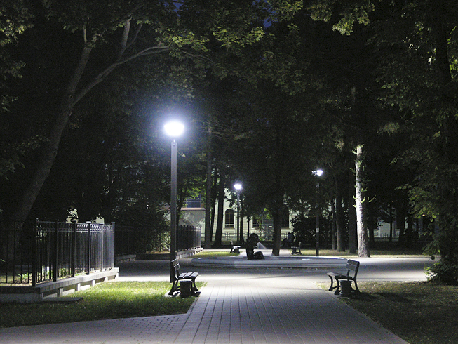 Andrey Pumpur's Park, Daugavpils, Latvia